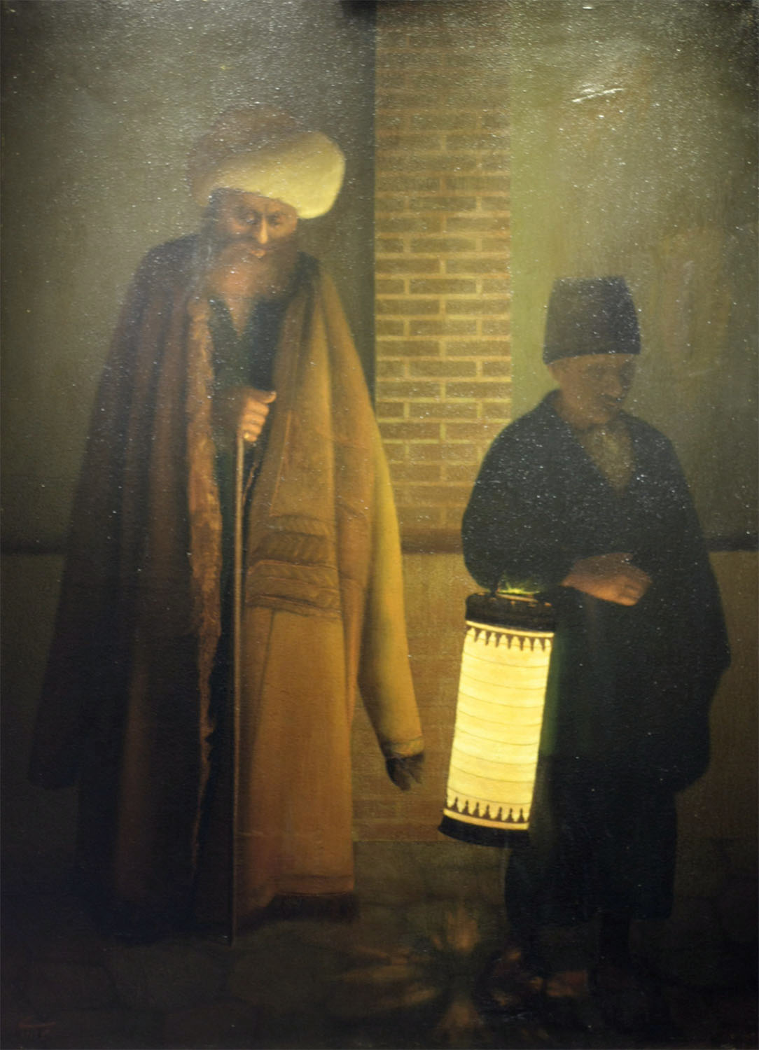 Mulla Ali Kani